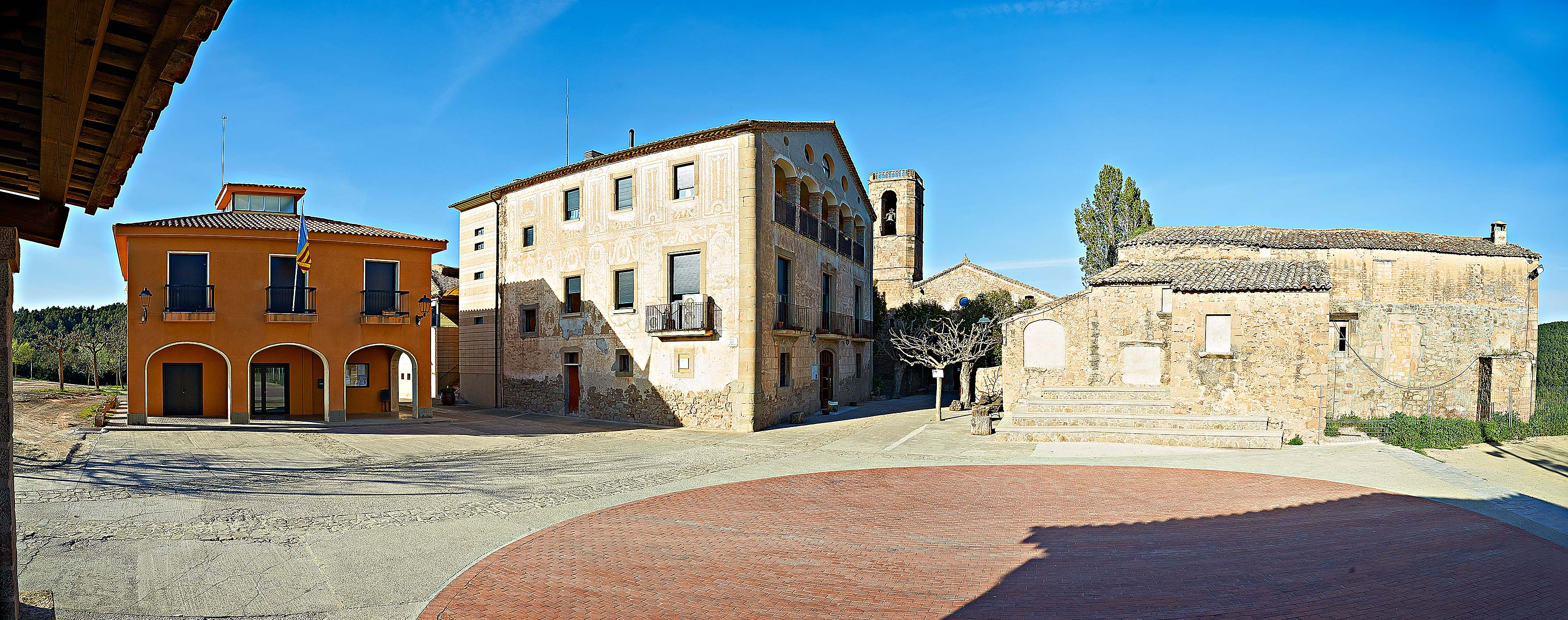 City council & old Rectory of Gaià, Catalonia, Spain